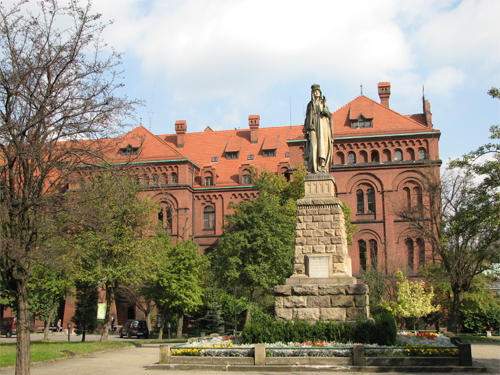 Monument of St. Hedwig Katowice Panewniki, Poland.